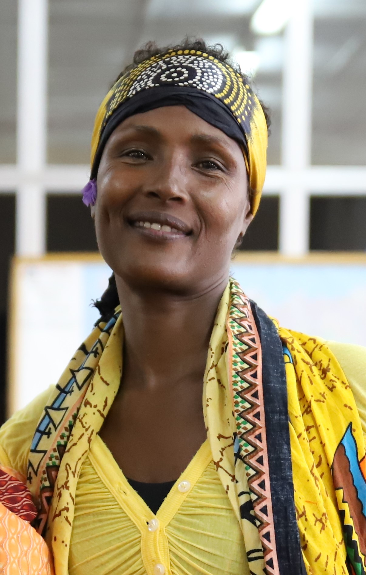 The image shows Waris Dirie during her recent visit 2018 to Sierra Leone (West Africa). The picture was taken during her meeting with the Mayor of Freetown in Sierra Leone's capital.